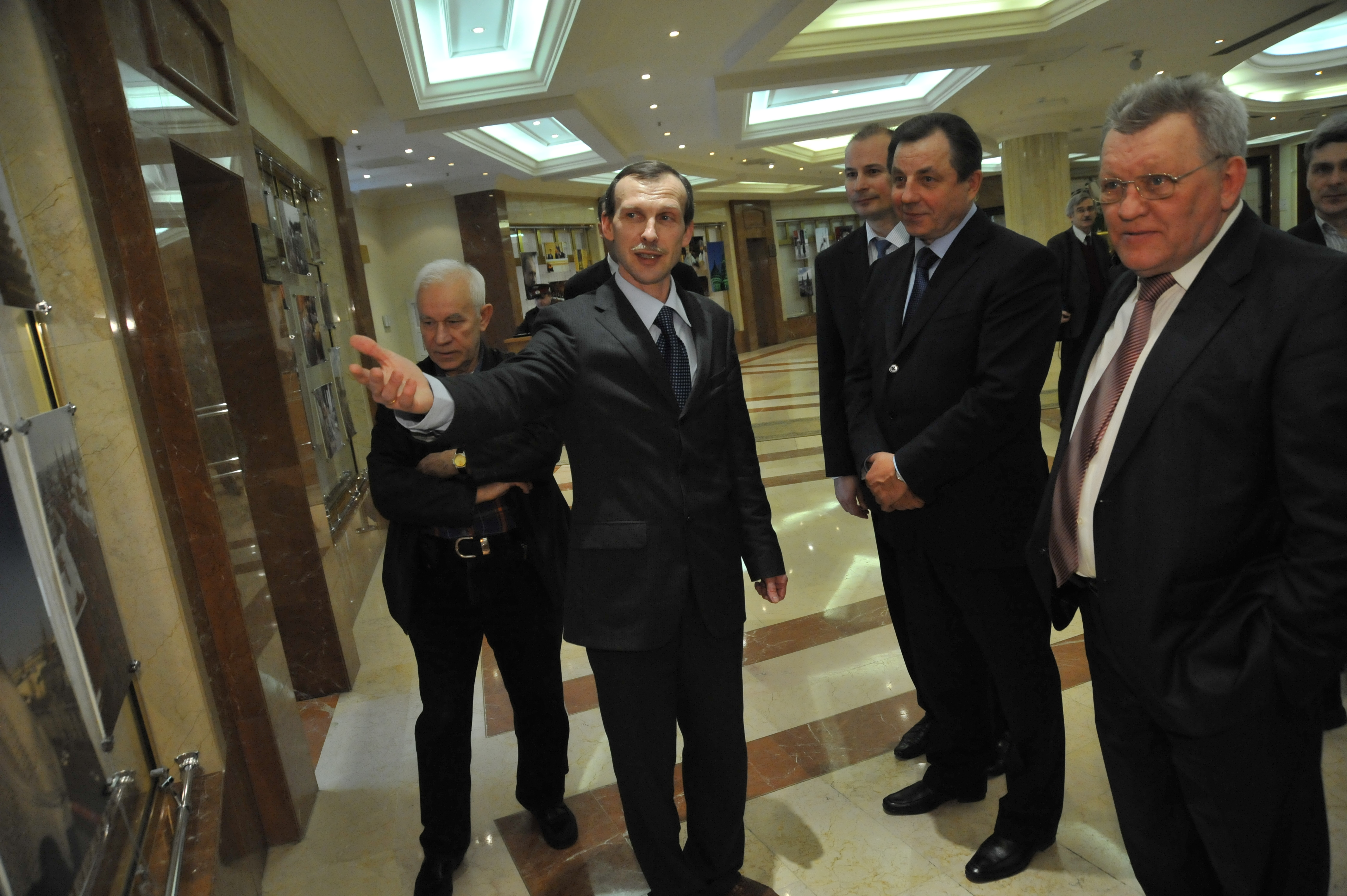 Олег Ласточкин, 2-я персональная выставка "20 лет конституции РФ – 20 кадров современной истории"